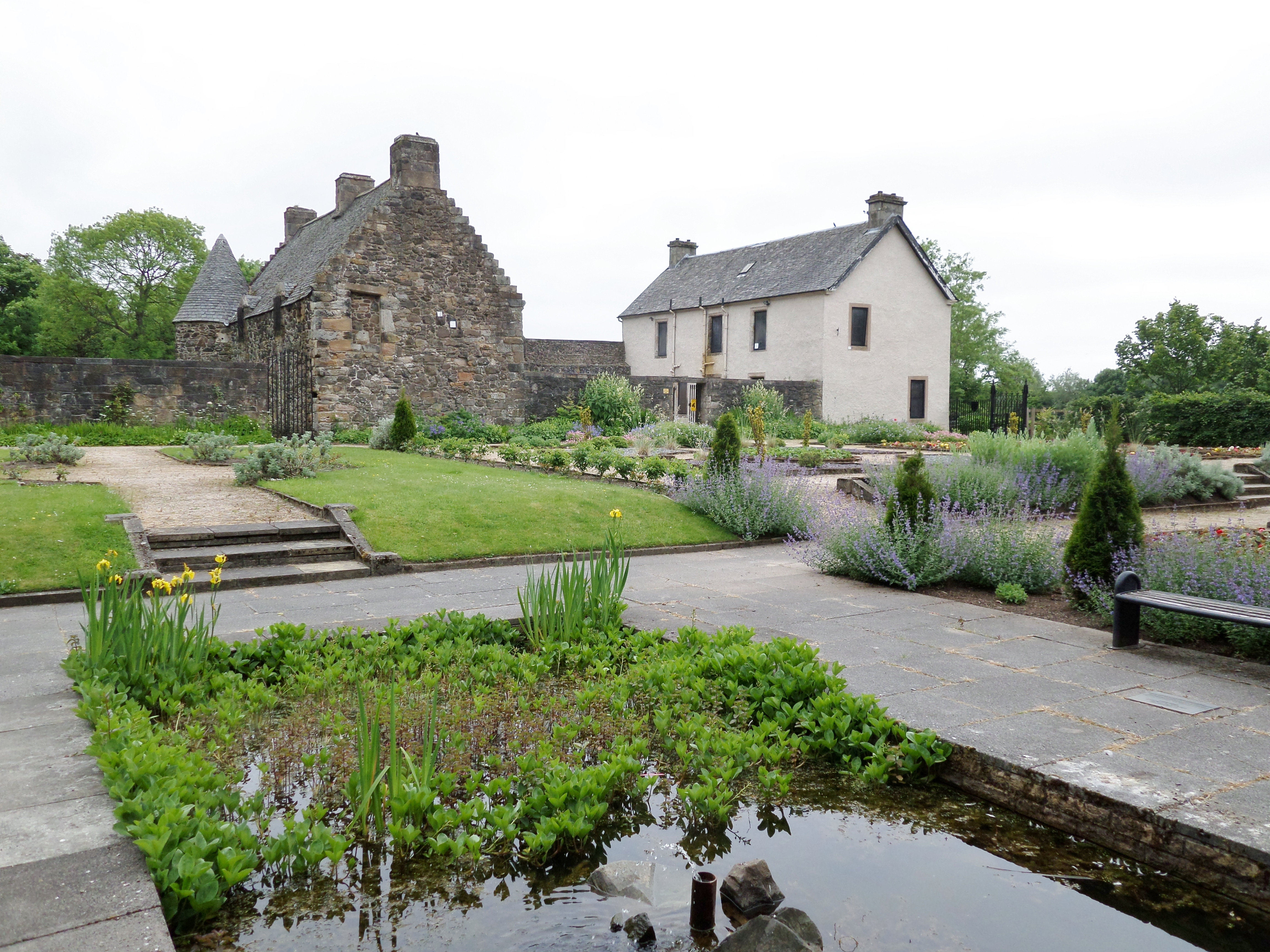 Provan Hall and Blochairn House, gardens, Auchinlea Park, Glasgow